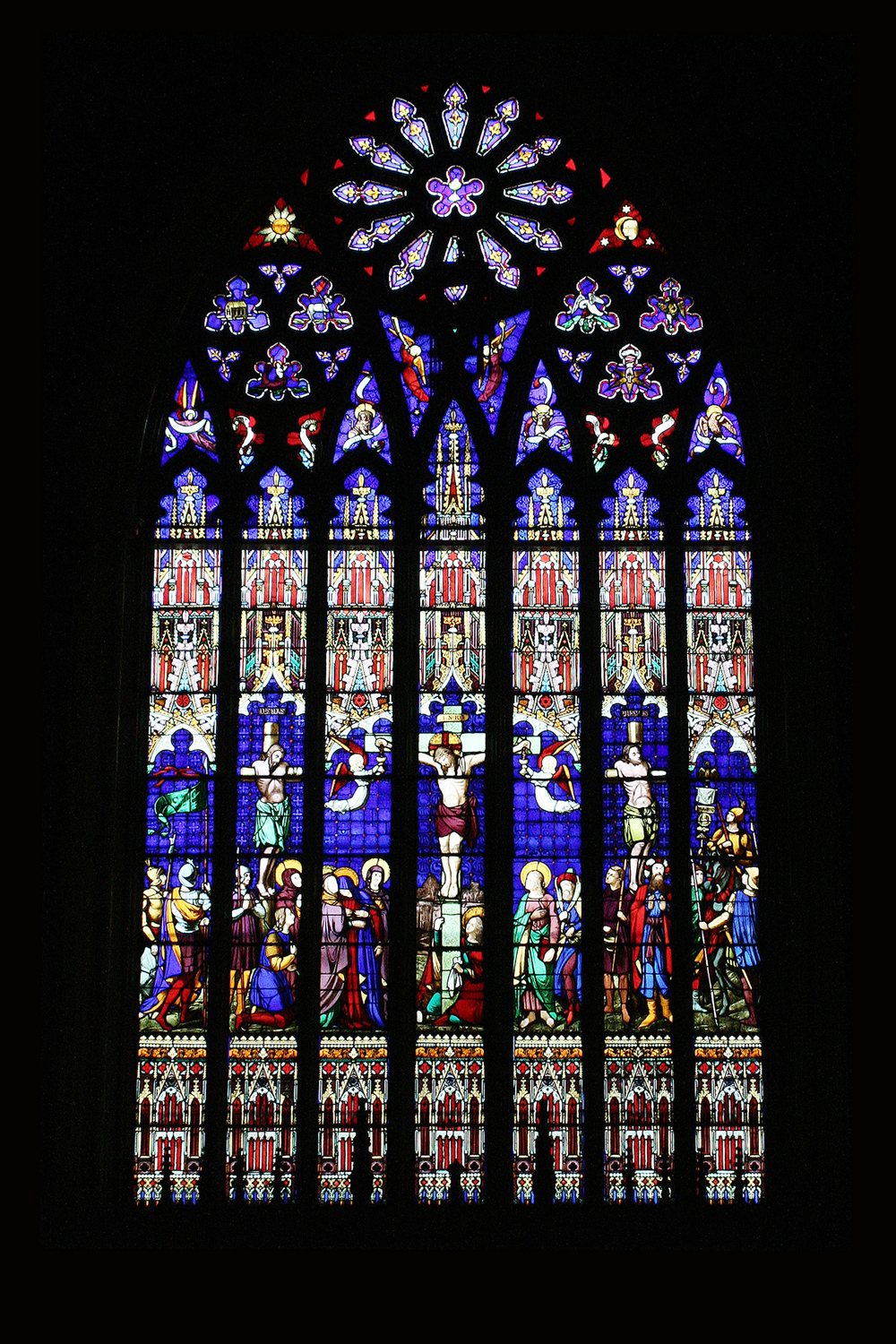 Crucifixion. Stained glass window in St.Michael Cathedral. Toronto. Author:Etienne Thevenot 1858